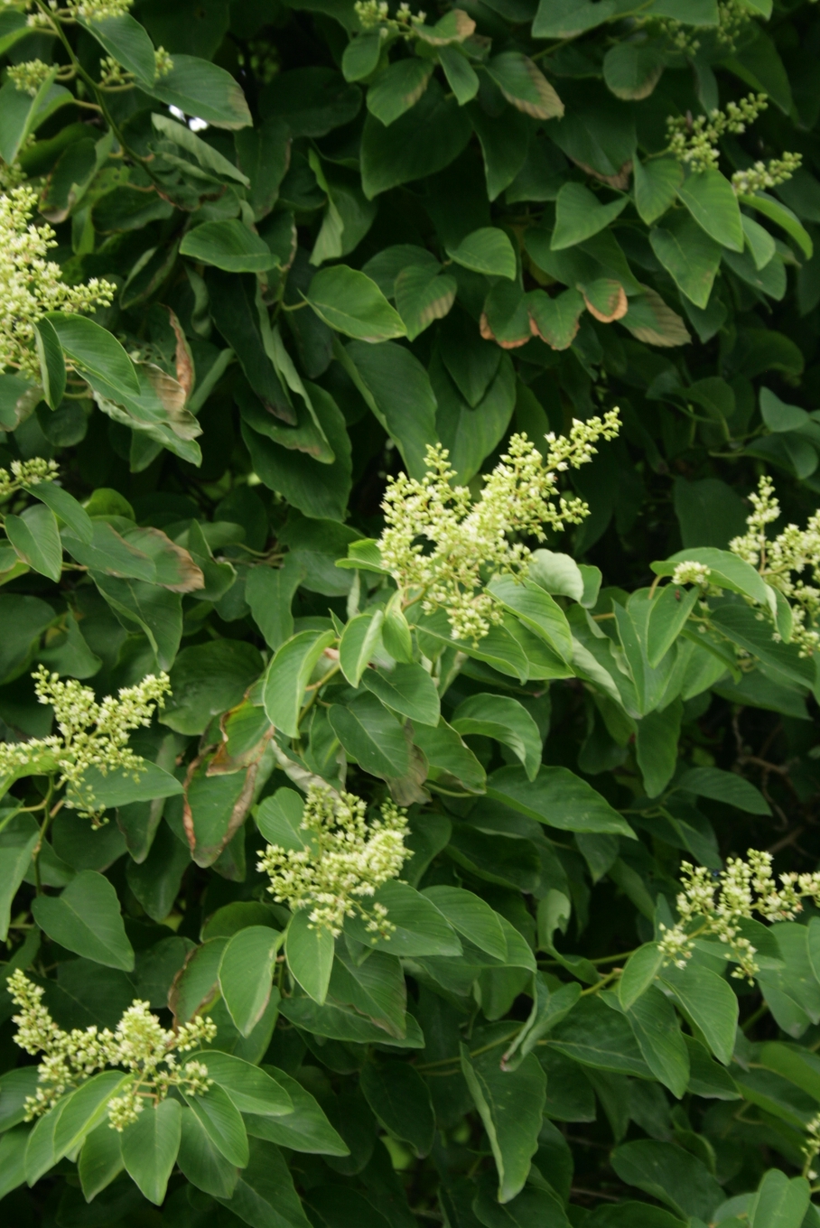 Berchemia racemosa: Foliage (Photo from the Botanical Garden of Aarhus, Denmark)